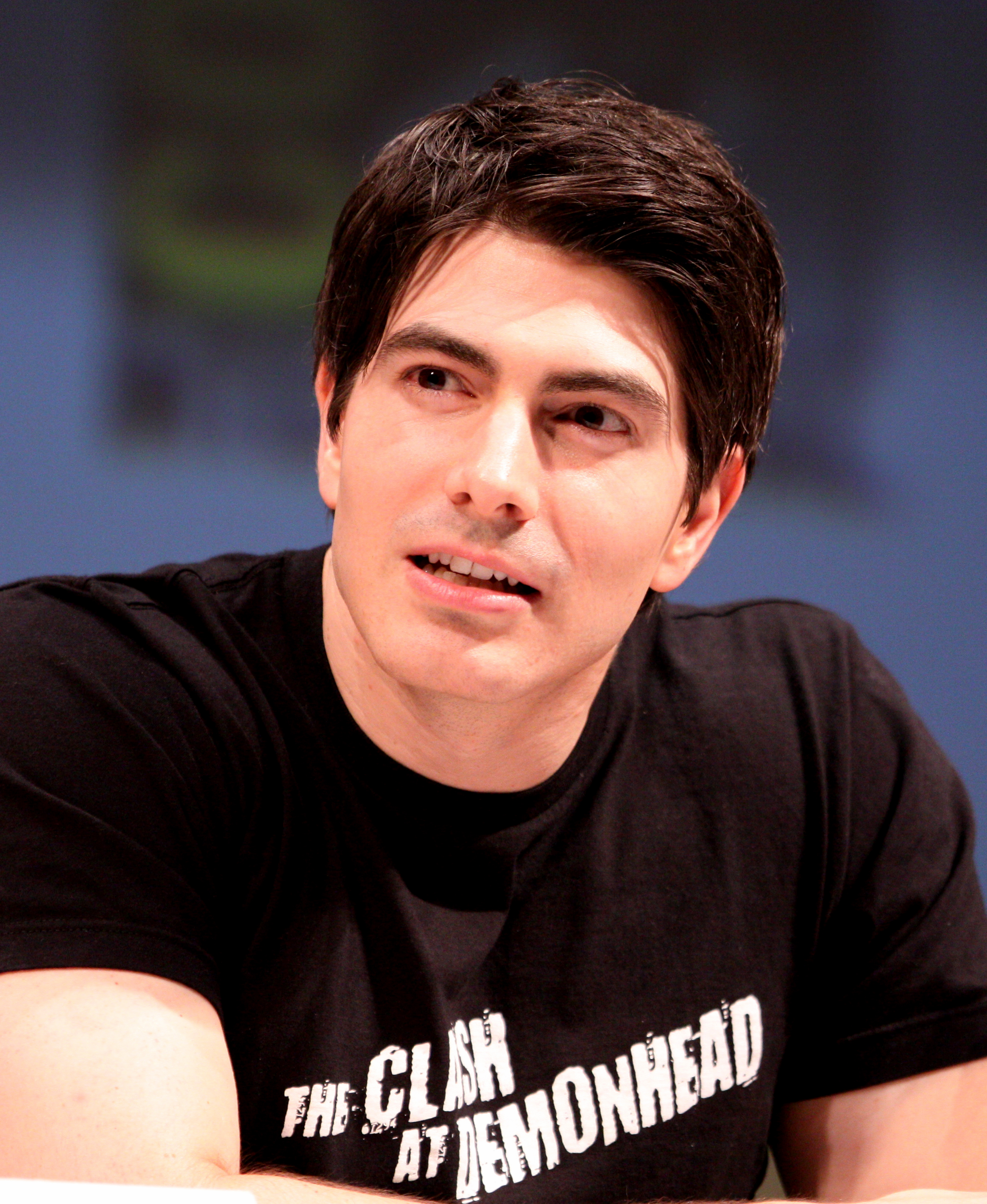 Brandon Routh at the 2010 Comic Con in San Diego